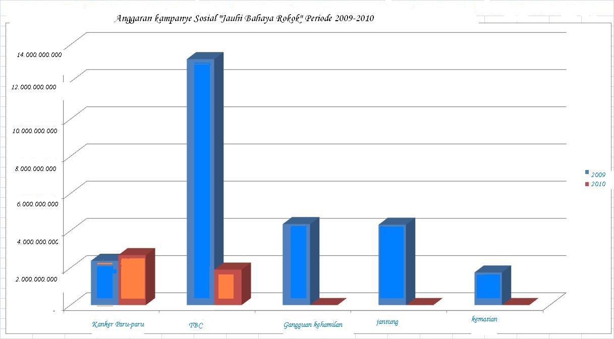 contoh grafik anggaran